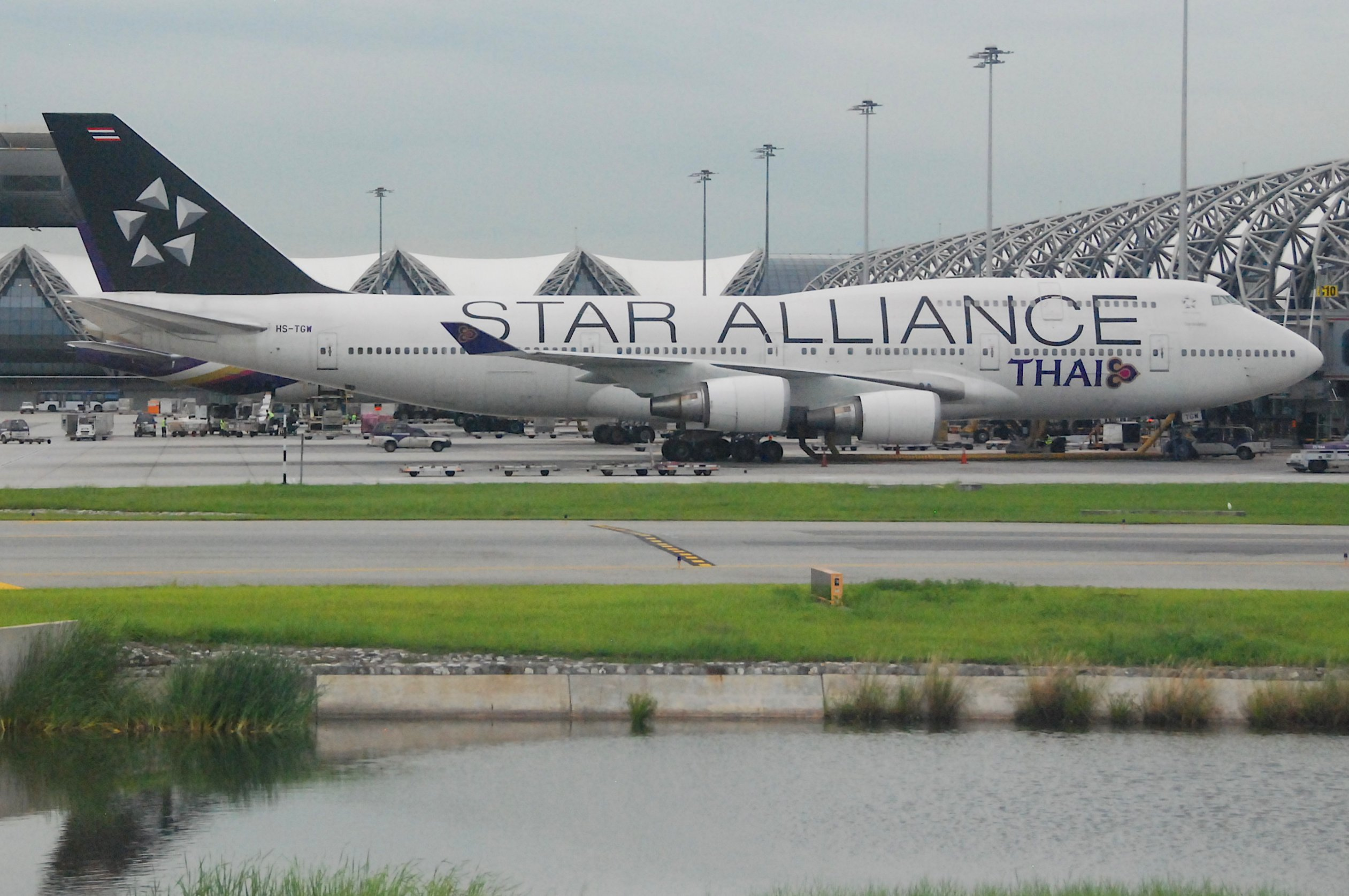 This Boeing 747-4D7 (in Star Alliance livery) took its first flight on April 19, 1997...